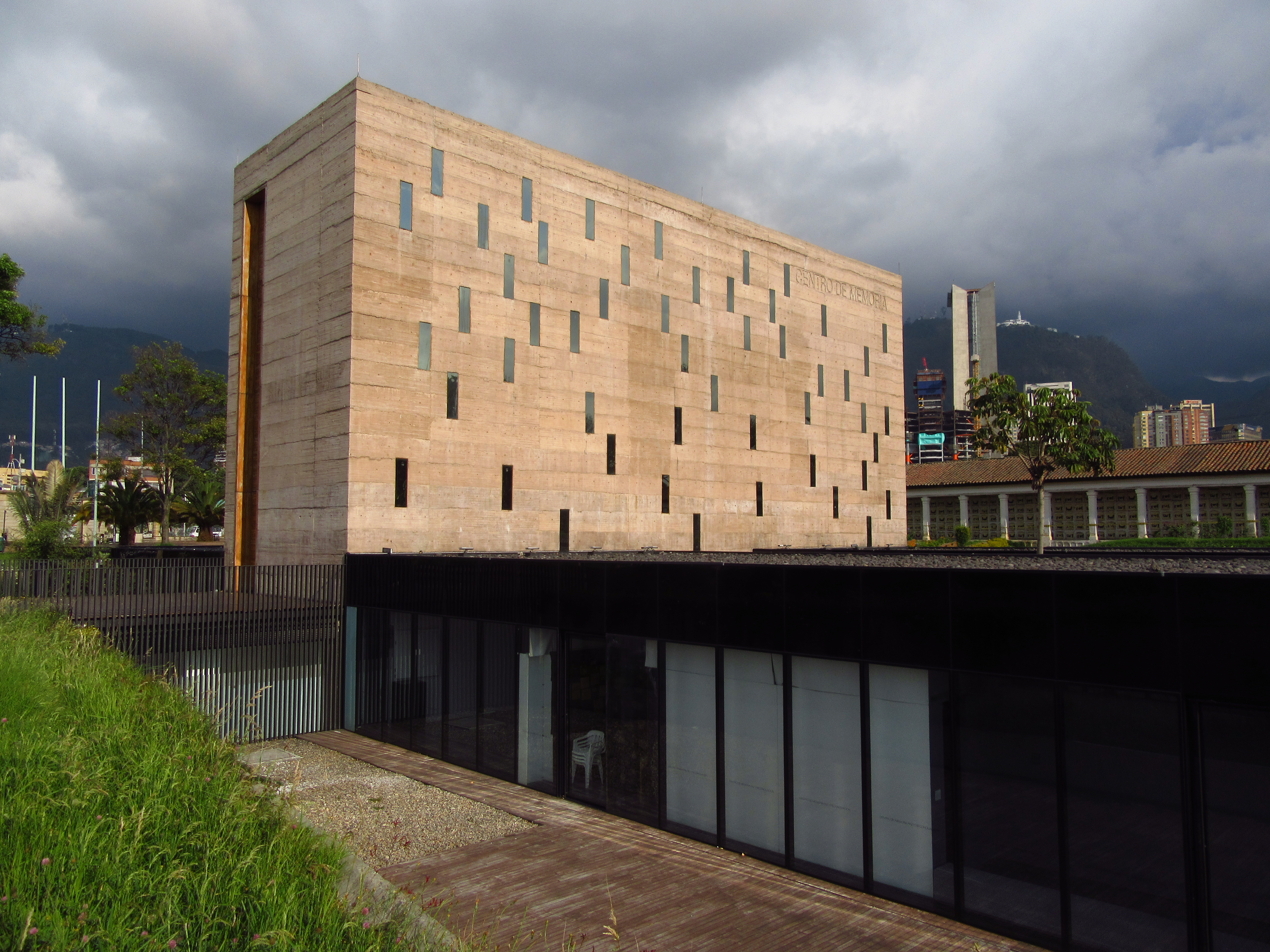 Bogotá